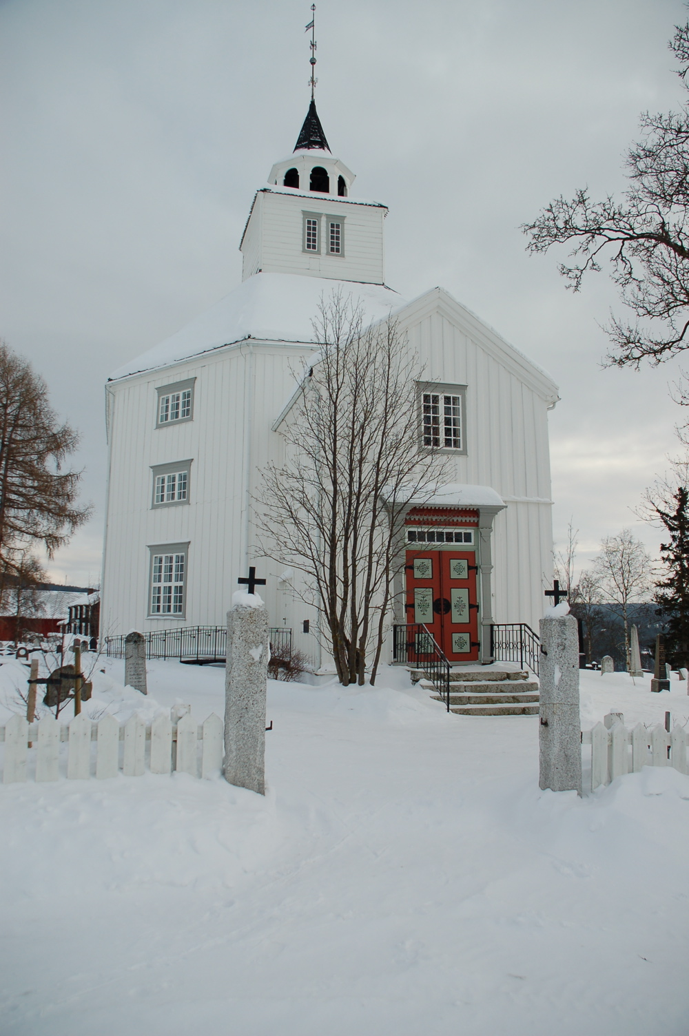 Tolga Church in winter, Tolga, Hedmark, Norway